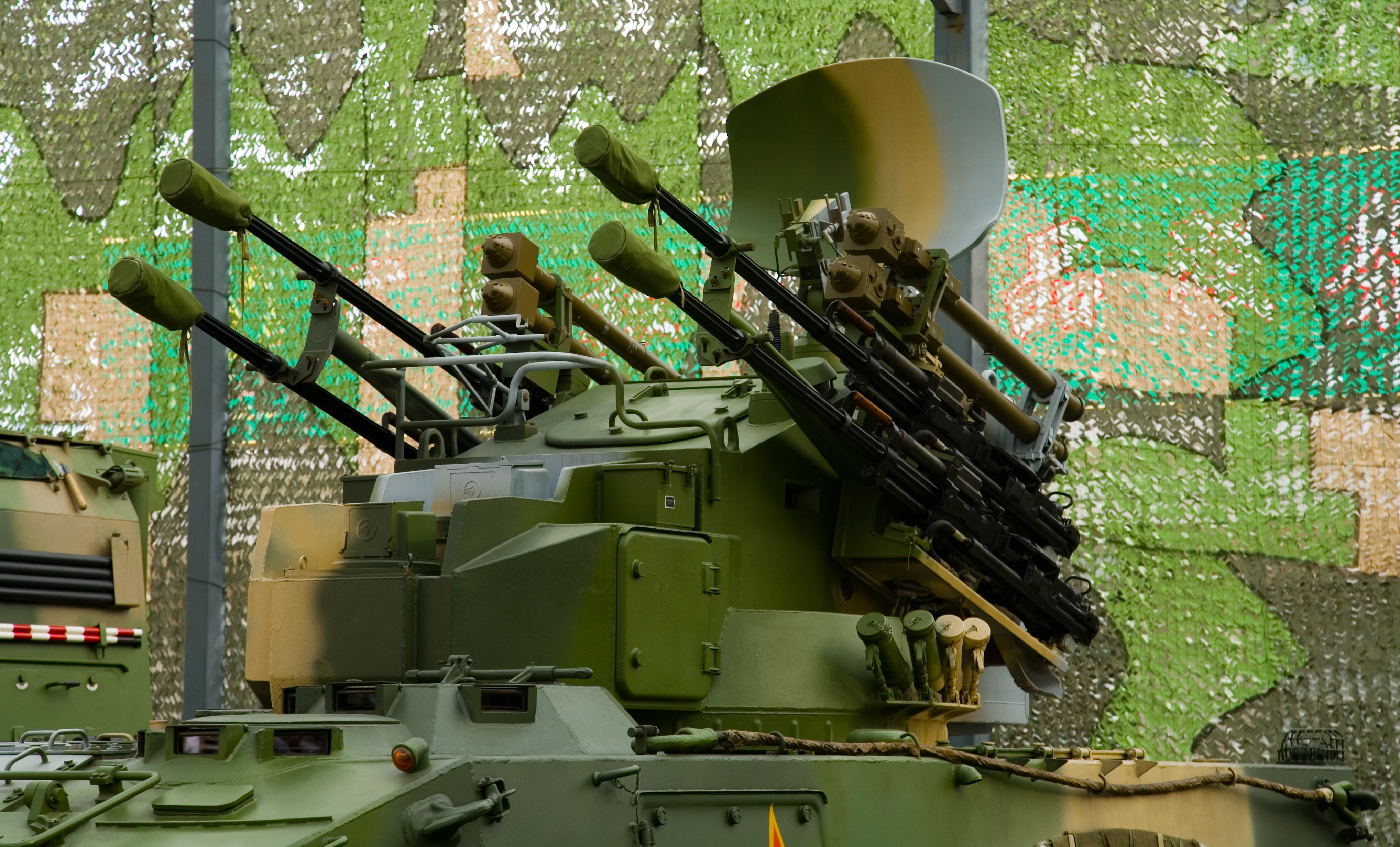 A Chinese Type 95 SPAAG vehicle on display at the "Our troops towards the sky" exhibition at the Beijing Military Museum.